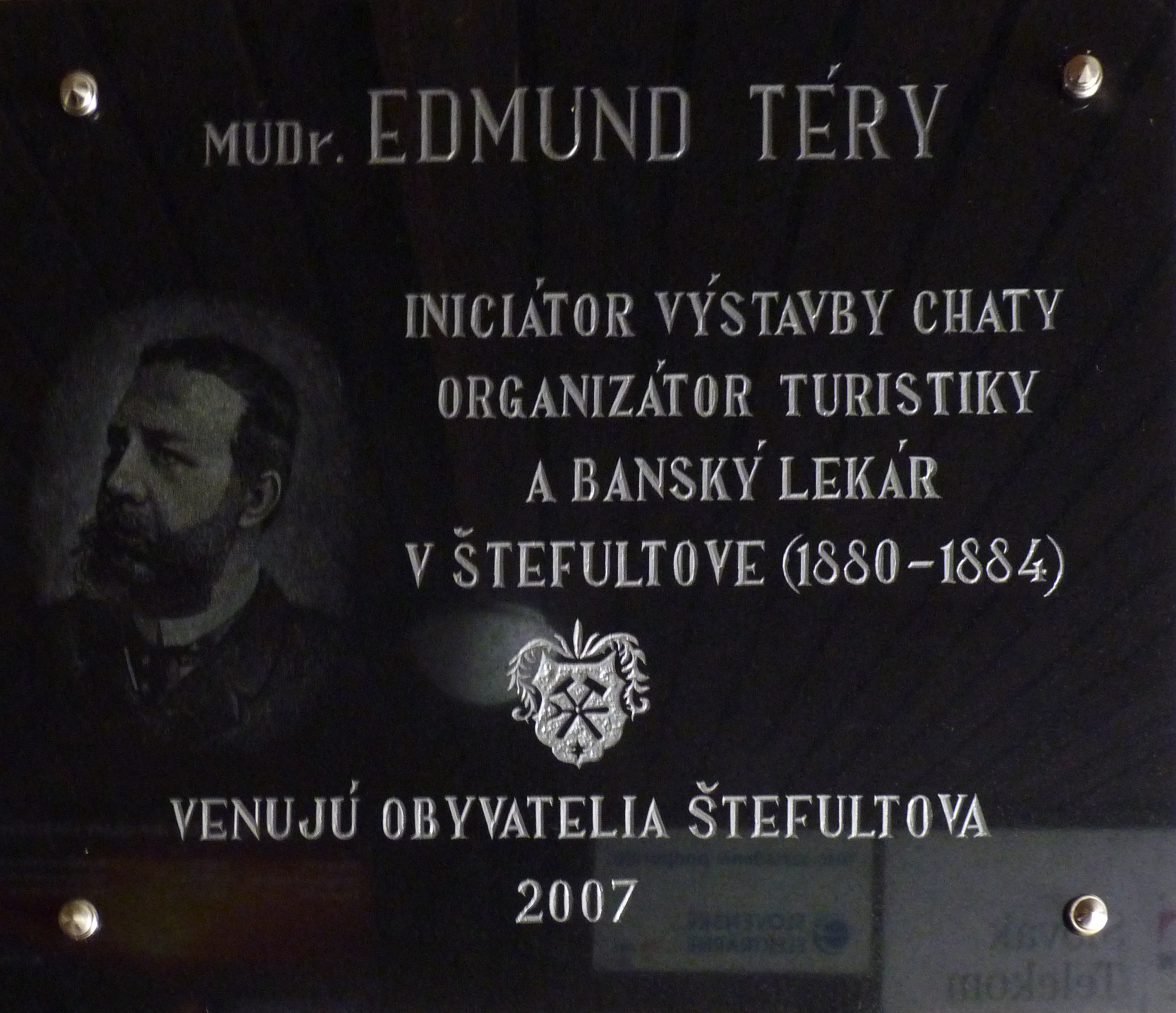 Téryho chata. Malá Studená dolina. Tatra Mountains, Slovakia